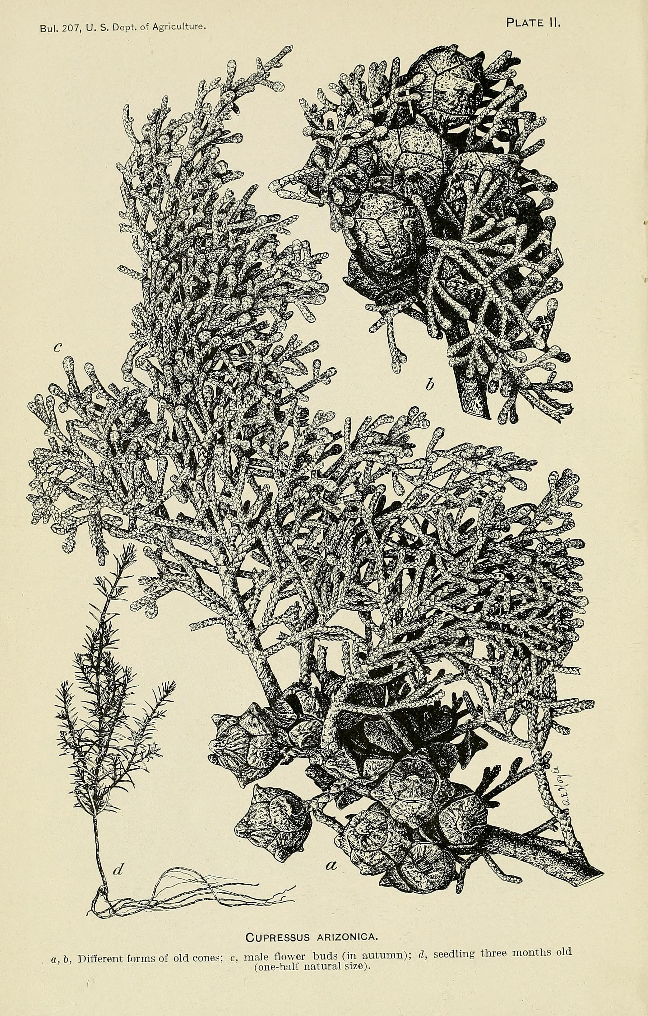 Title: Bulletin of the U.S. Department of Agriculture Year: 1913-1923. (1910s) Authors: United States. Dept. of Agriculture Subjects: Agriculture; Agriculture Publisher: (Washington, D. C. ?) : The Dept. : Supt. of Docs. , G. P. O. Text Appearing Before Image: Bui. 207, U. S. Dept. of Agriculture. Plate II. Text Appearing After Image: CUPRESSUS ARIZONICA. a,b, Different forms of old cones; c, male flower buds (in autumn); A, seedling three months old (one-half natural size).